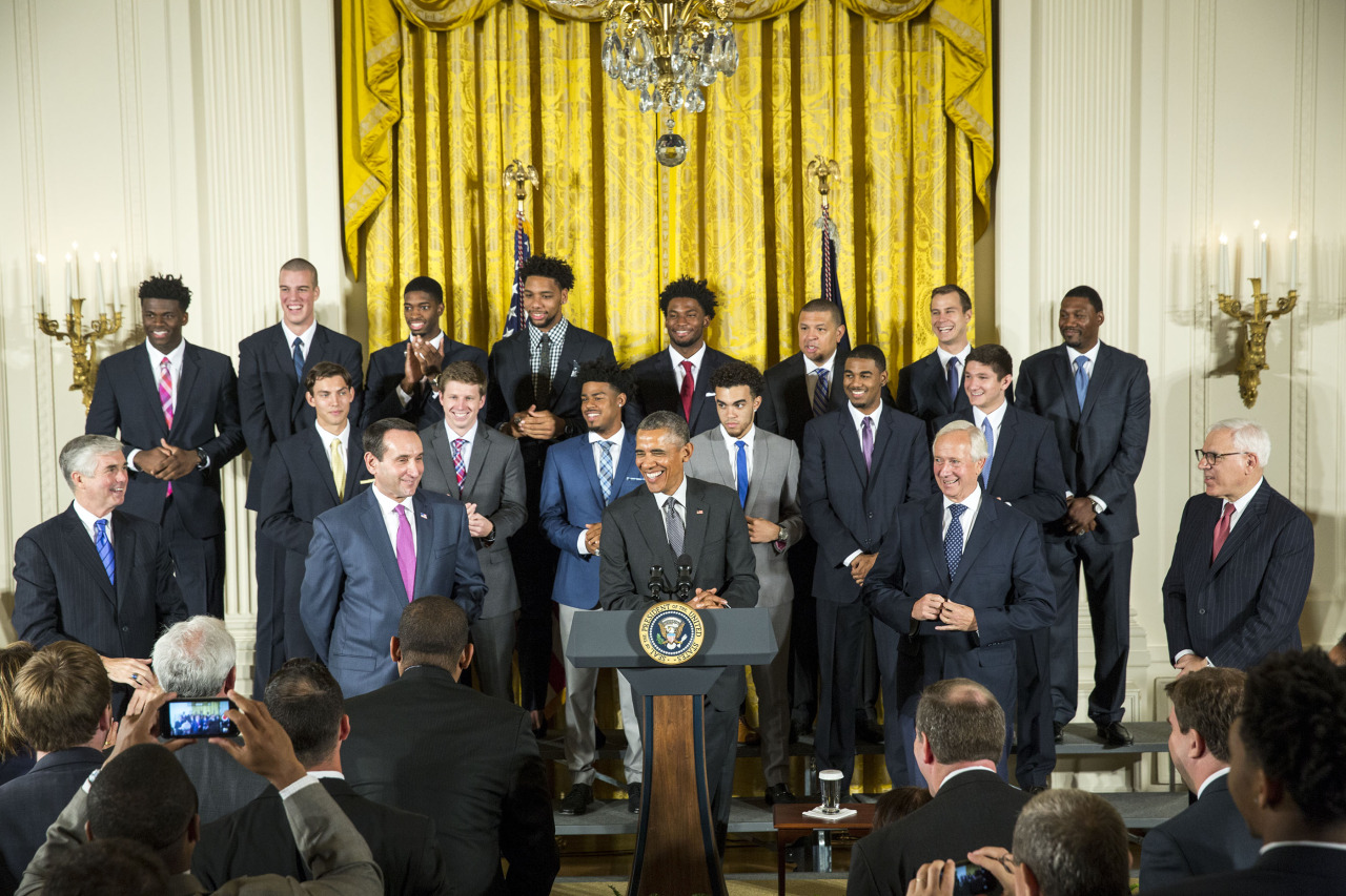 President Barack Obama delivers remarks welcoming the NCAA Champion Duke University Blue Devils men’s basketball team to honor the team and their 2015 NCAA Championship victory, during a ceremony in the East Room of the White House, Sept. 8, 2015. (Official White House Photo by Amanda Lucidon)